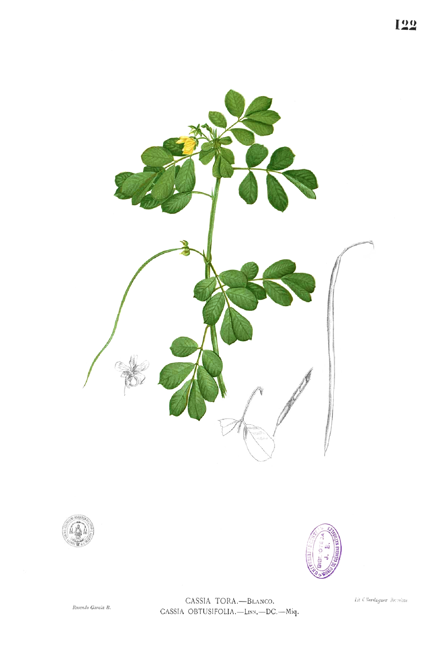 Plate from book